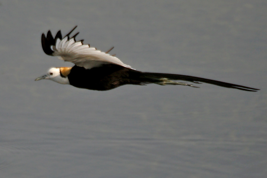 Pheasant-tailed Jacana Hydrophasianus chirurgus at Lotus Pond, Hyderabad, India.